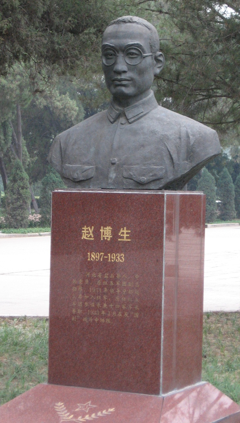 A statue of Zhao Bosheng in Shijiazhuang Hebei,China.中国河北石家庄华北军区烈士陵园内赵博生像。